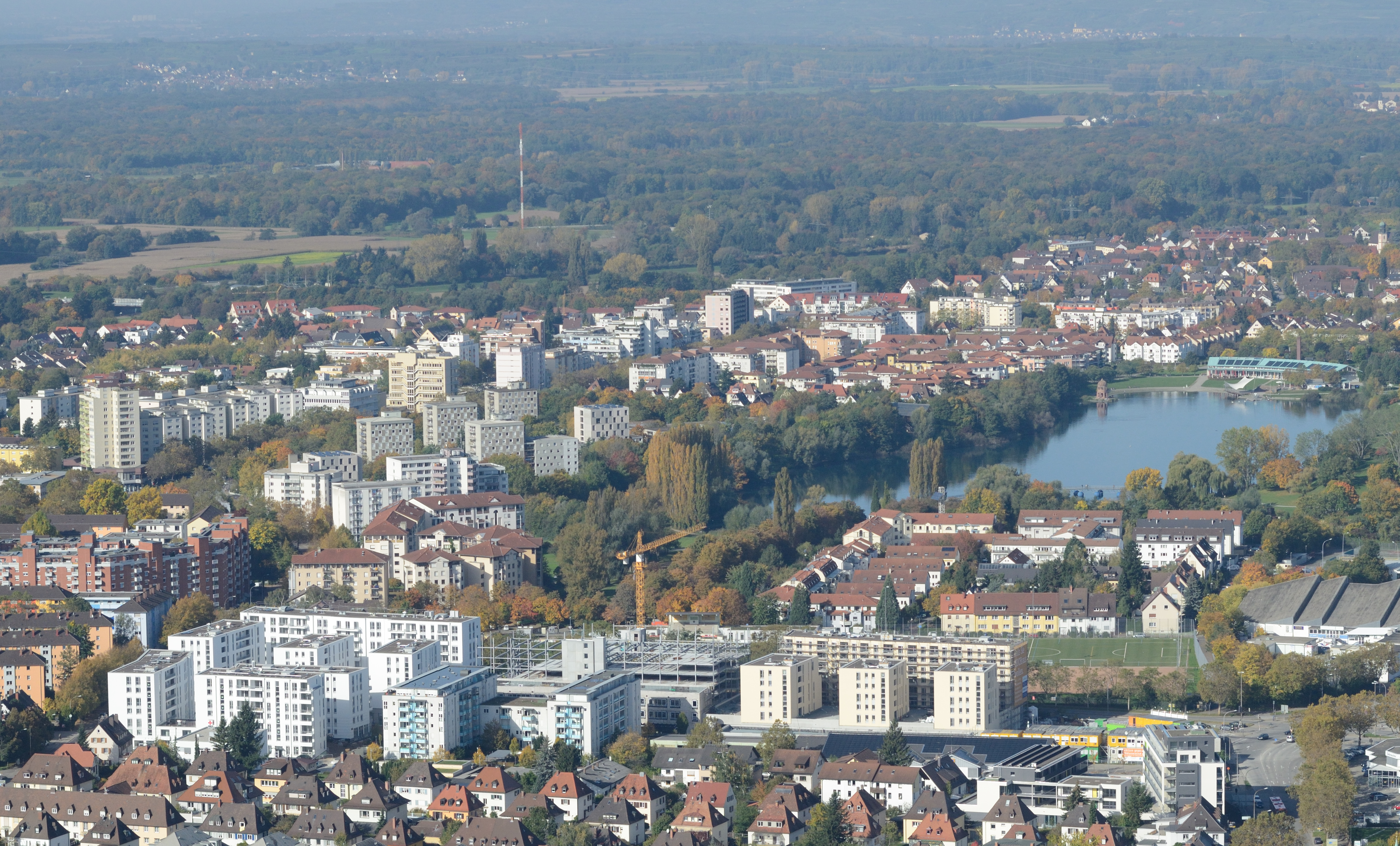 Aerial view Freiburg Seepark